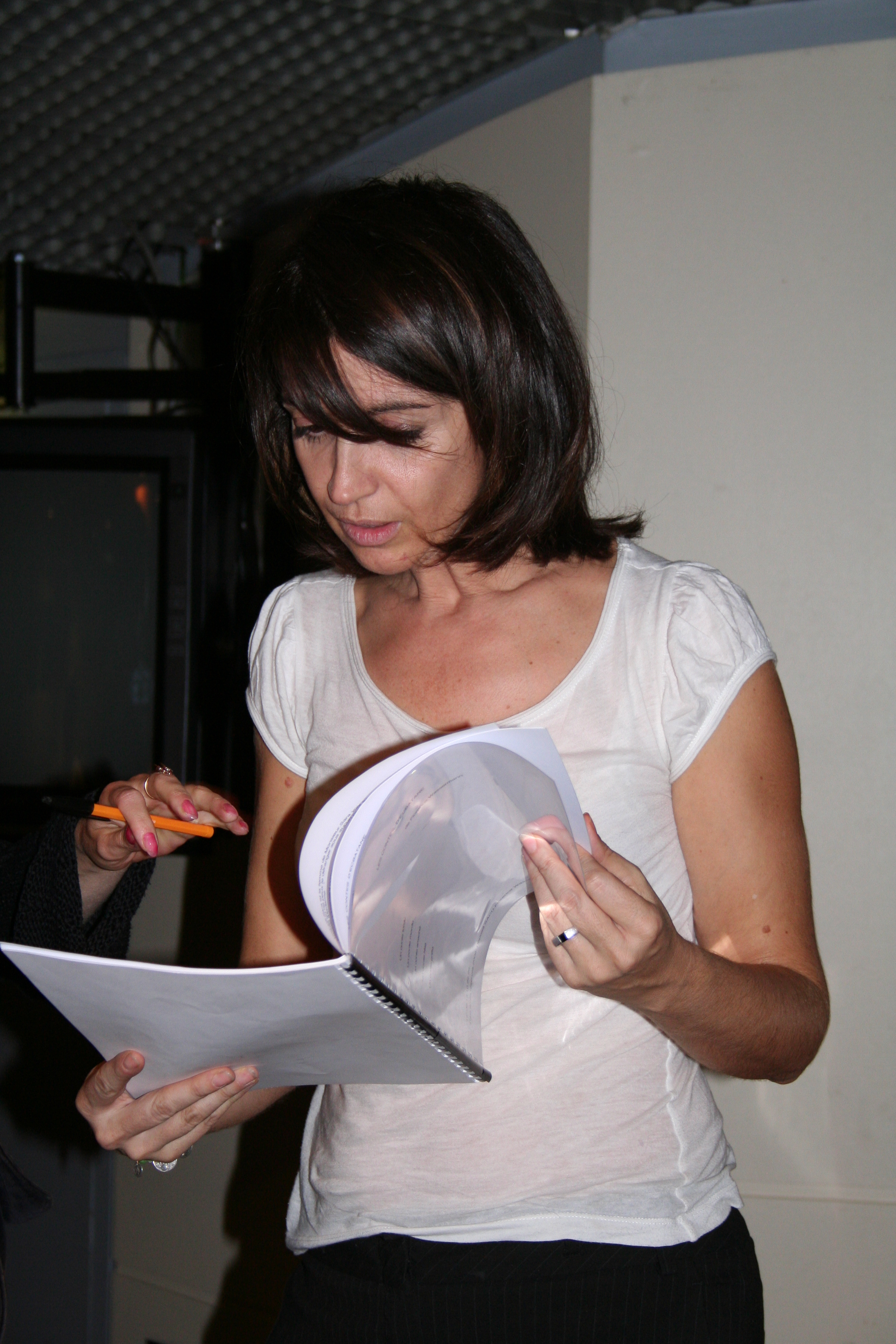 Rendezvous with Zabou Breitman and Léa Drucker at Fnac des Halles (Paris, France).